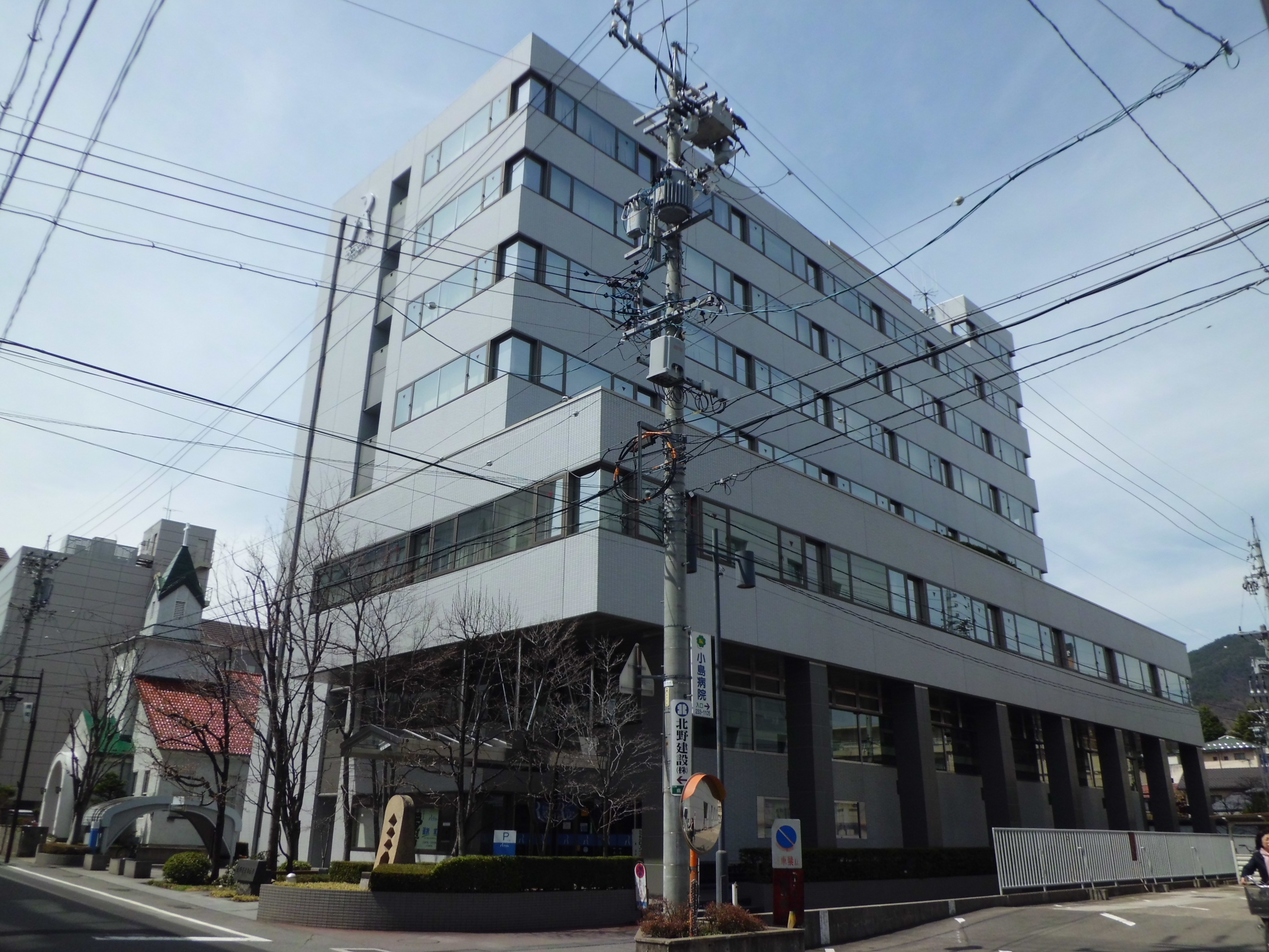 Head office of Nagano Prefecture Labour Bank